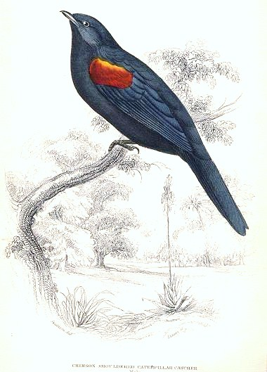 Crimson Shouldered Caterpillar Catcher = Campephaga phoenicea (Red-shouldered Cuckooshrike) - Male